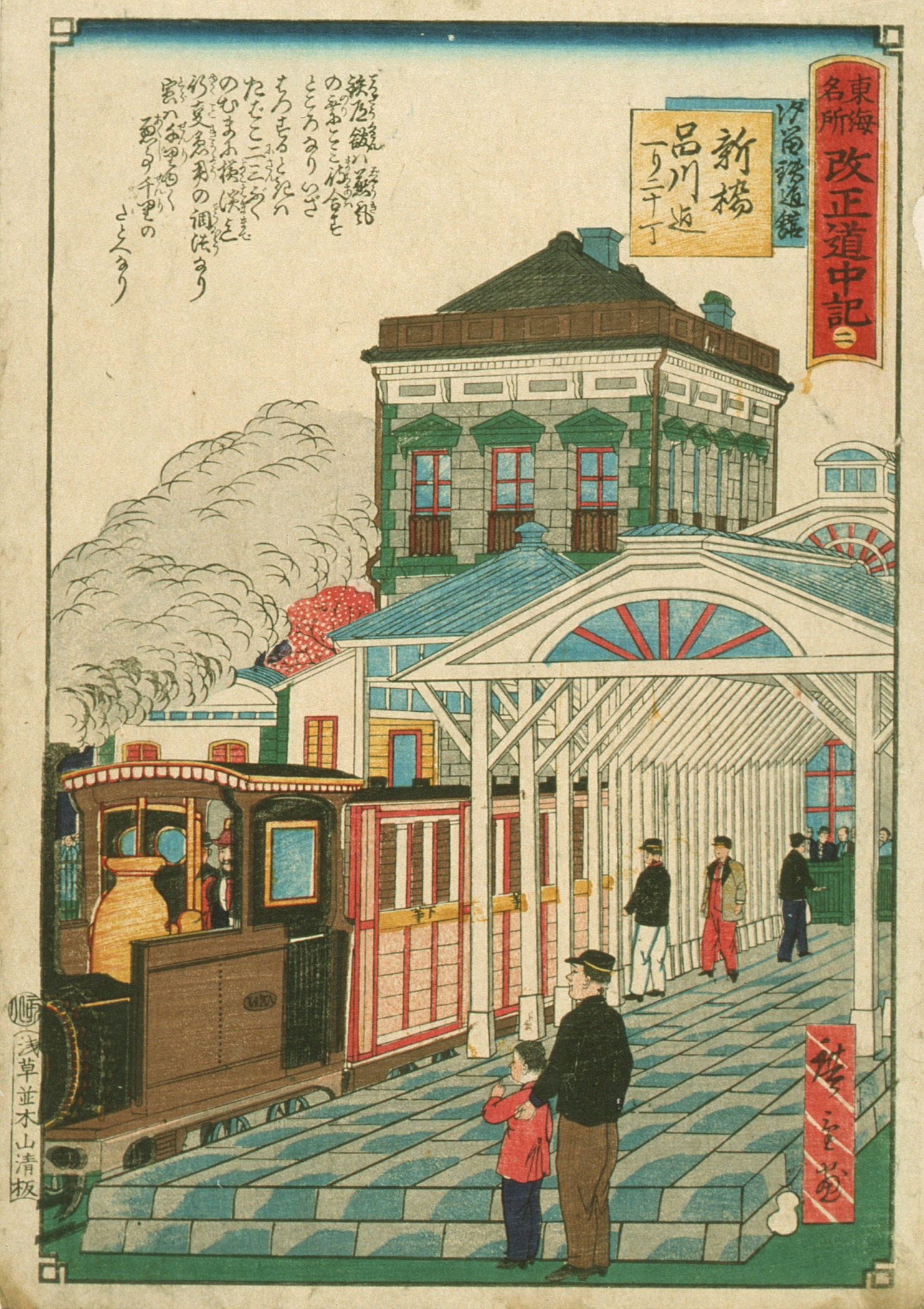 Japan, 19th century Prints; woodcuts Color woodblock print Image: 13 x 9 3/16 in. (33 x 23.3 cm); Paper: 14 3/8 x 9 5/8 in. (36.5 x 24.5 cm) Gift of N. J. Sargent (16.16.5) Japanese Art